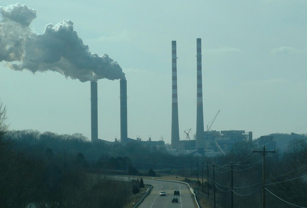 Smokestacks at the Cumberland Power Plant, a Tennessee Valley Authority power plant in Cumberland City, Tennessee, United States.